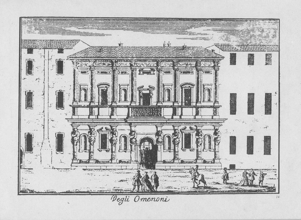 Marc'Antonio Dal Re (1697-1766), The so called "Casa degli Omenoni" ("House of big men") in Milan. This engraving is # 14 from a set of 88 Vedute di Milano ("Views of Milan") published by Del Re around 1745.